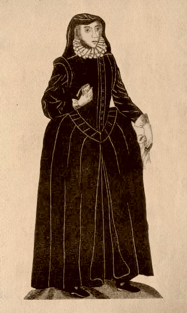 Engraving of Mrs. Anne Turner on her way to the gallows